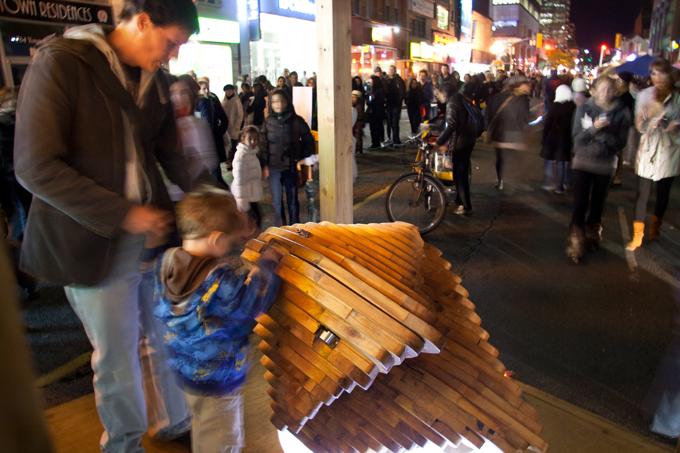 Interactive public art projet Kortunefookie, shown at La Scotiabank Nuit Blanche, Toronto 2010.